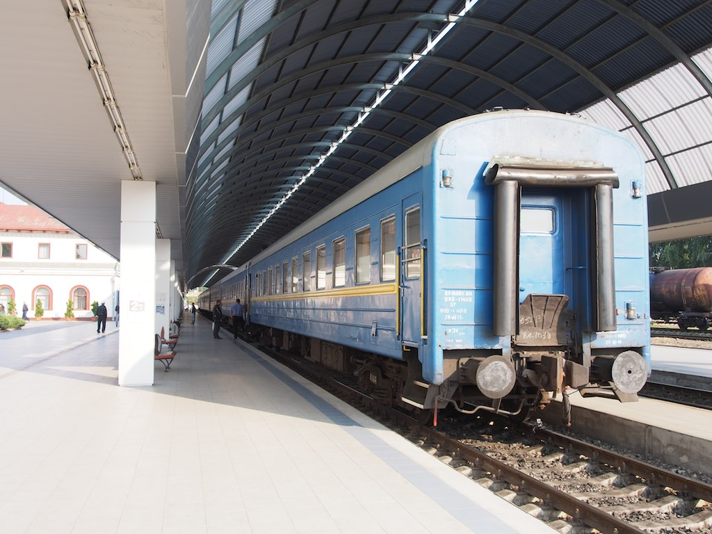 The Chisinau to Bucharest train, Prietenia. This daily train is one of the world unique trains. Certainly one of the lesser known international services. The equipment is a mixed bag of Soviet, and East German build Ammendorf style cars. The change of gauge from standard to Russian gauge takes place at the Moldovan frontier town of Ungheni. The hard switching that takes place during the process of rebuilding the train in an experience all by itself. The 2 berth sleepers are very comfortable and the train has a buffet car that has snacks and of course beer and vodka at very reasonable prices.